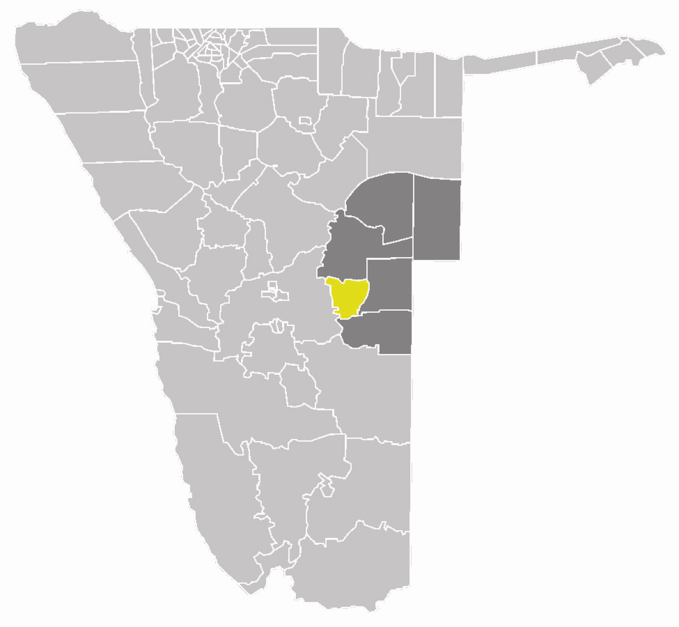 map of the Gobabis constituency within the Omaheke region, Namibia